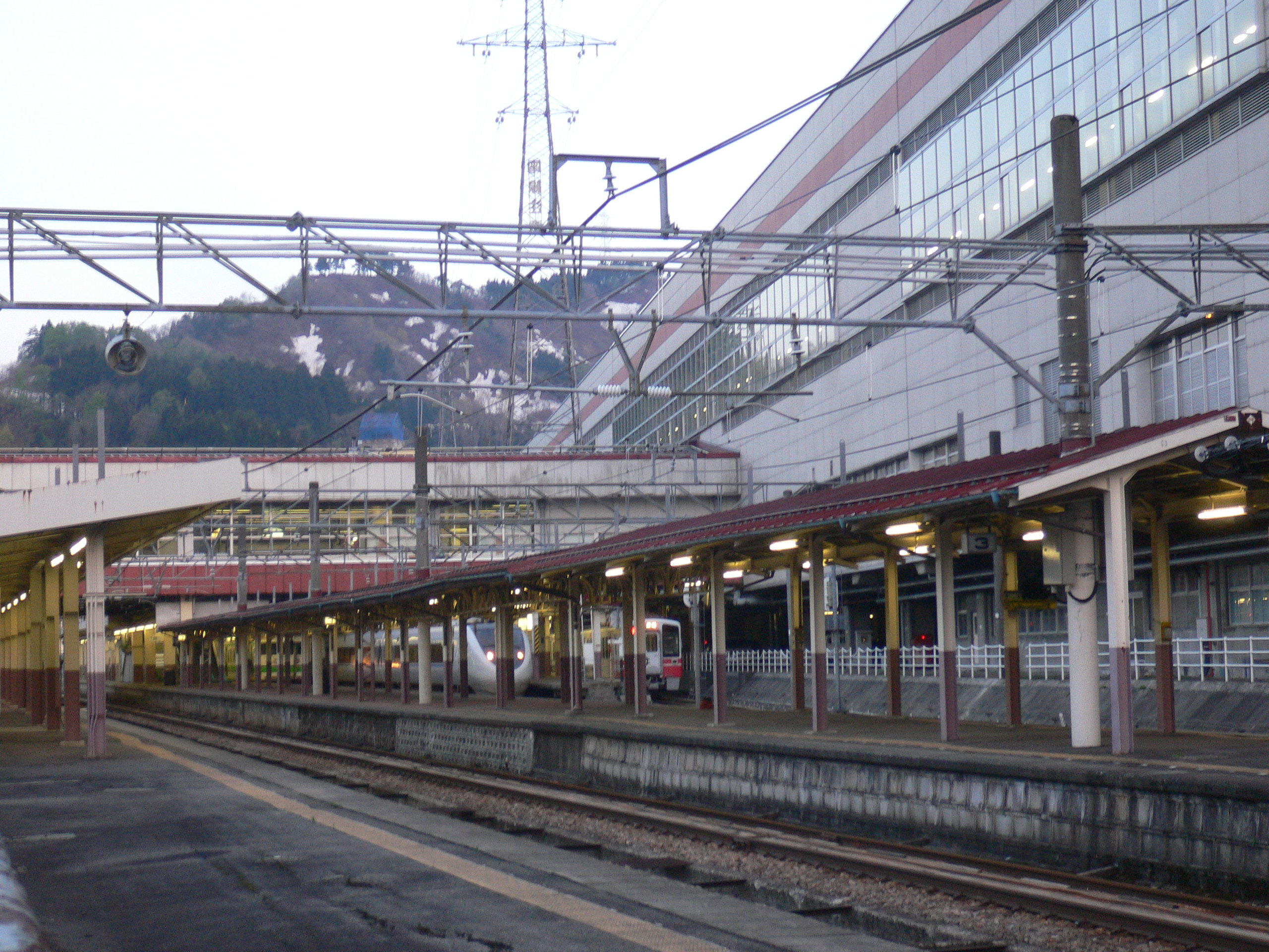 Echigo Yuzawa Station (越後湯沢駅), Yuzawa T, Niigata P.